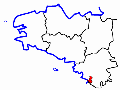 Description: Map for localisazion of cantons of Pays-de-Loire, region in France Source: made by Hervé Tigier in april 2005 from another large map (published in 1990)